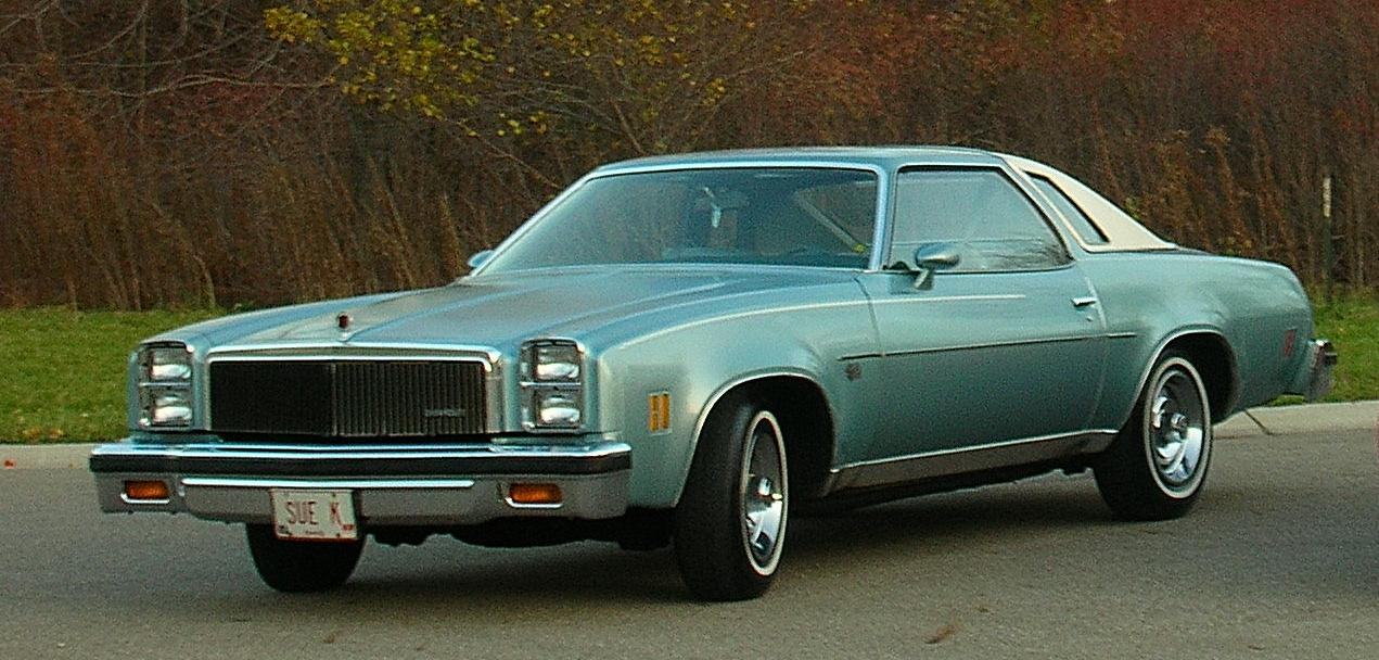 I took the picture - 1977 Chevrolet Chevelle Malibu Classic Landau Coupe